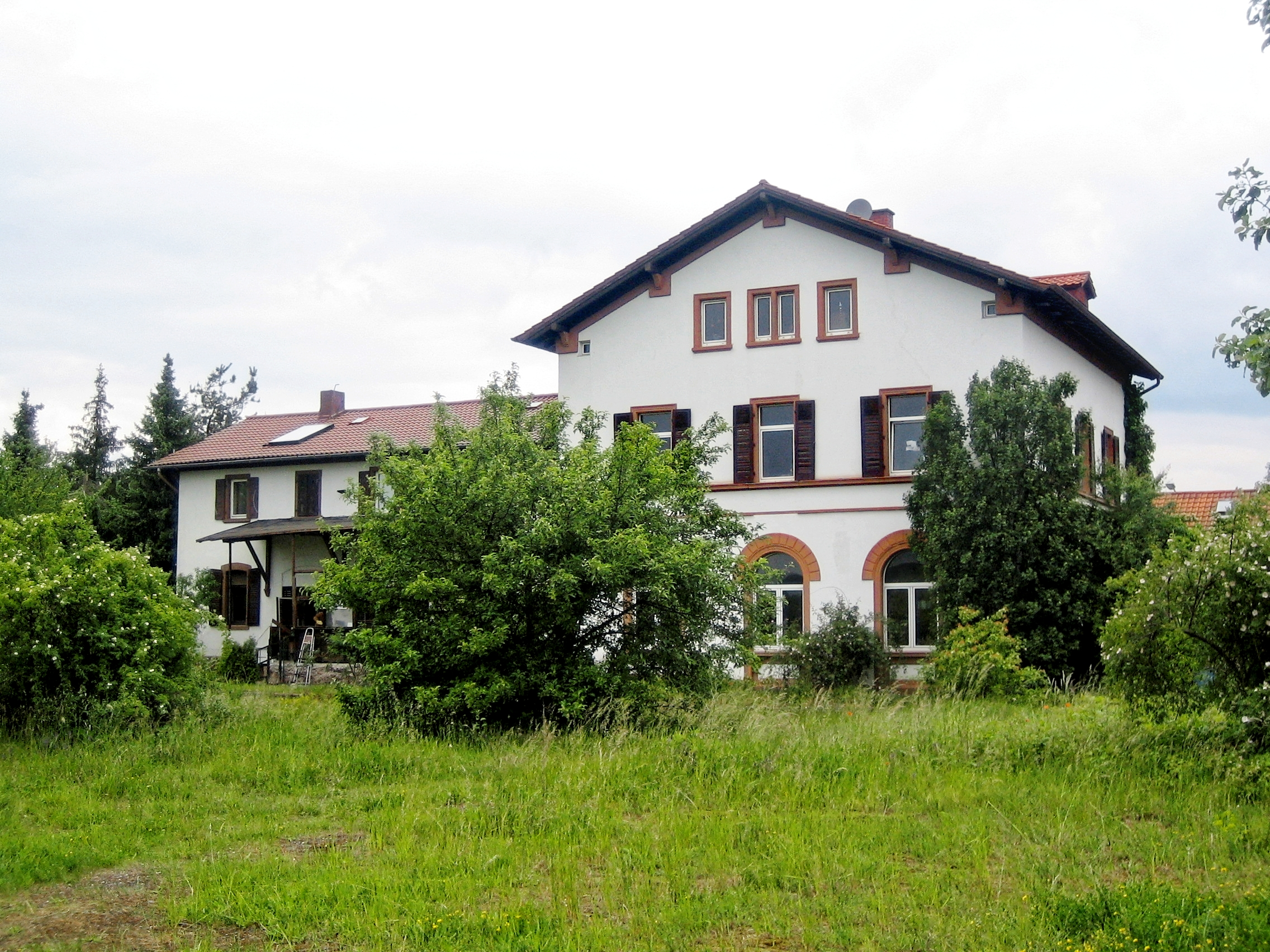 Former train station in Westheim, Rhineland-Palatinate, Germany